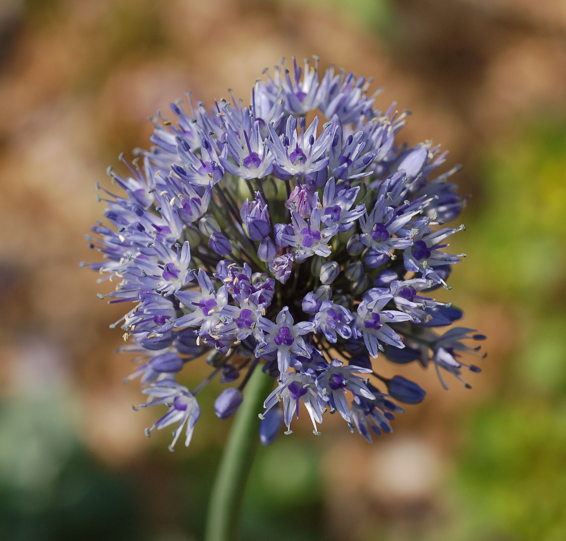 Picture of a flower head of an Allium caeruleum en . Photo taken in the Pond Garden Arbor at the Chanticleer Garden.